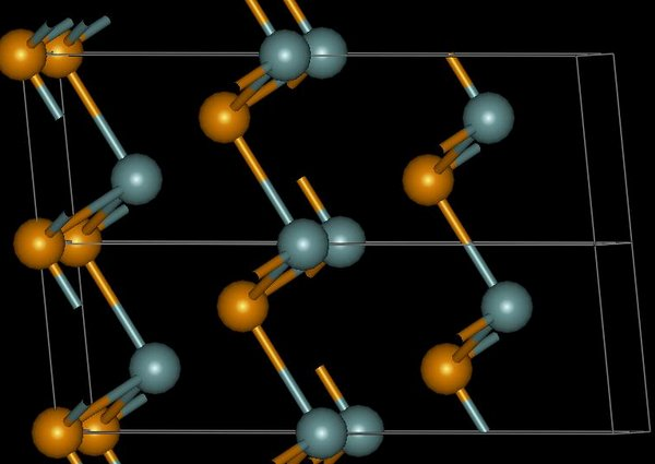 Rhombohedral alpha-GeTe structure Journal = JOURNAL OF PHYSICS C: SOLID STATE PHYSICS, Year = 1987, Volume = 20, Page = 1431–1440, Title = Neutron diffraction study on the structural phase transition in GeTe, Authors = Chattopadhyay T., Boucherle J.X., Von Schnering H.G.